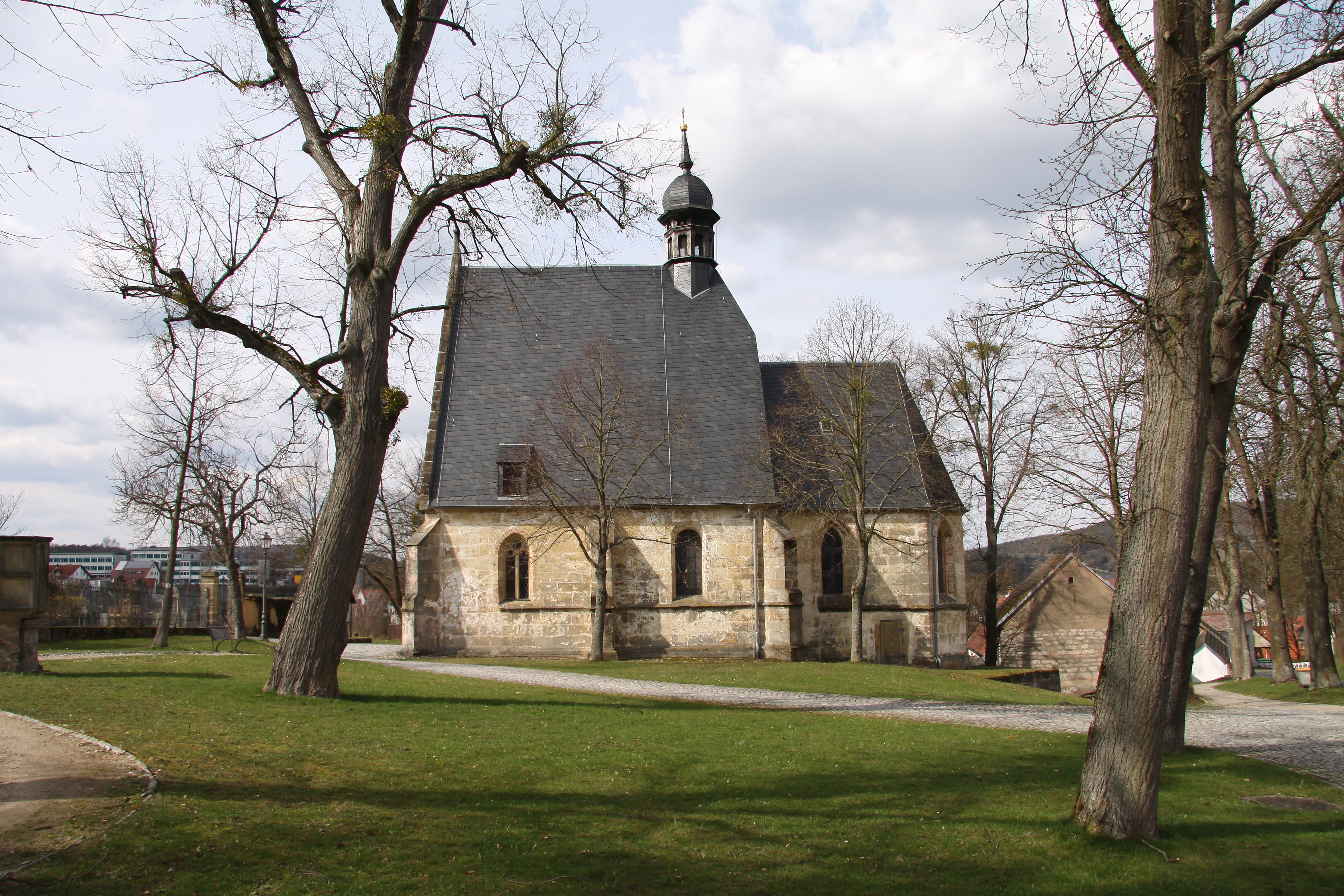 Magdalenenkapelle, Baunach, Chapel